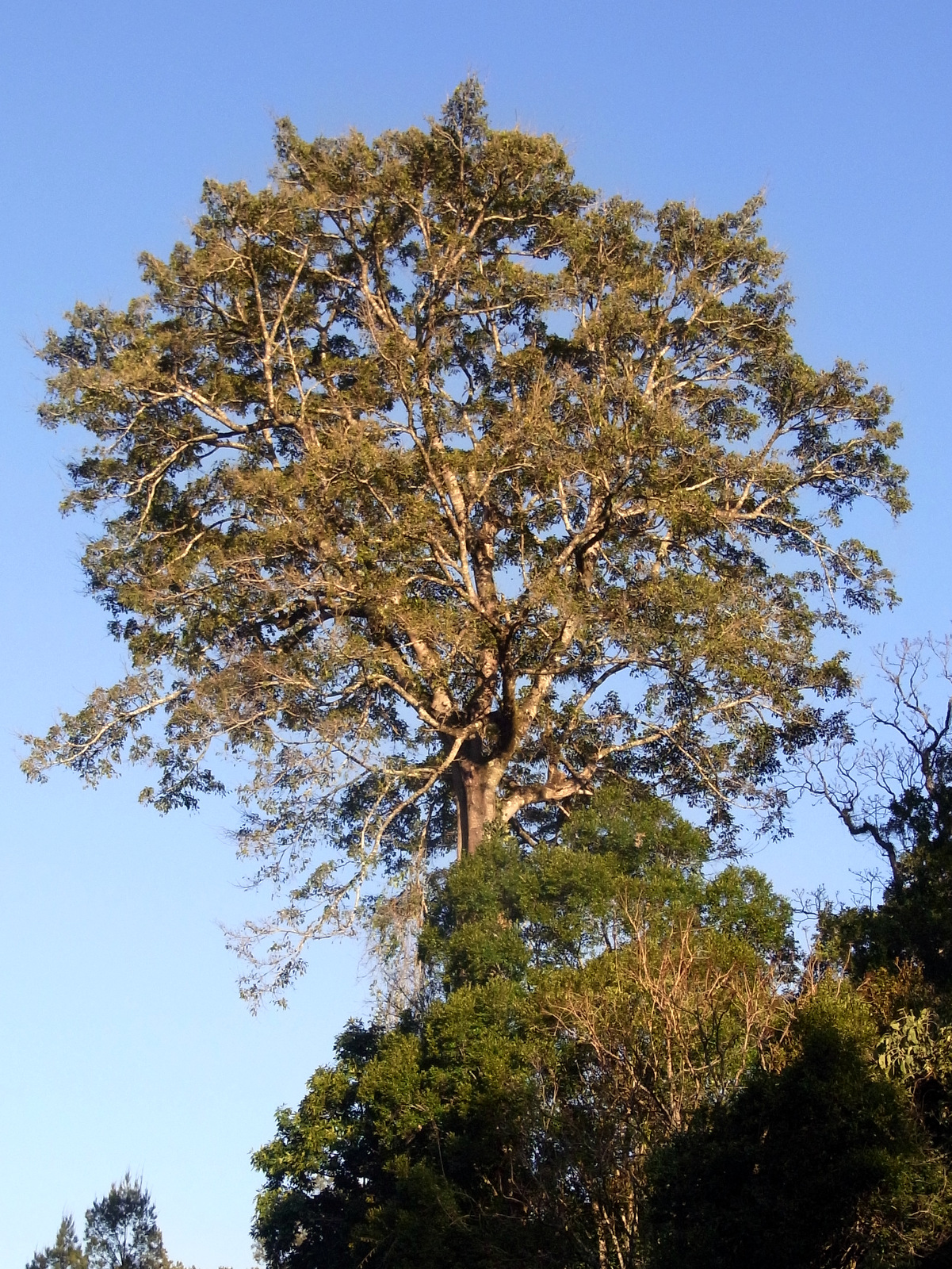 Ficus obliqua, measured at 38 metres tall, Thunderbolts Way, Bretti Nature Reserve, NSW, Australia